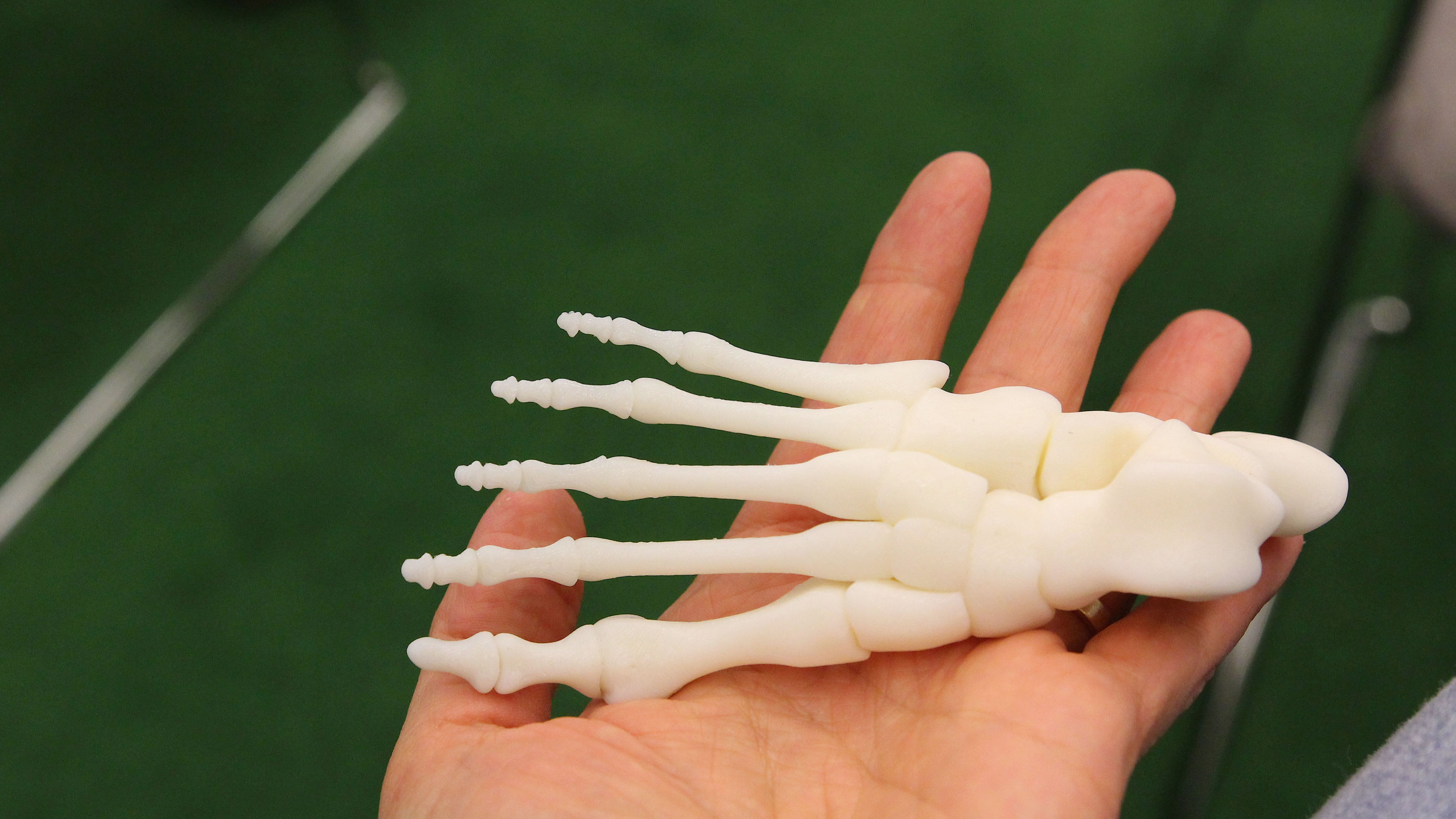 Skeleton of foot printed with 3D printers on Sliperiet, Umeå University. Sliperiet - an incubator and work space for the creative industries. Photo by Ulrika Bergfors Kriström.